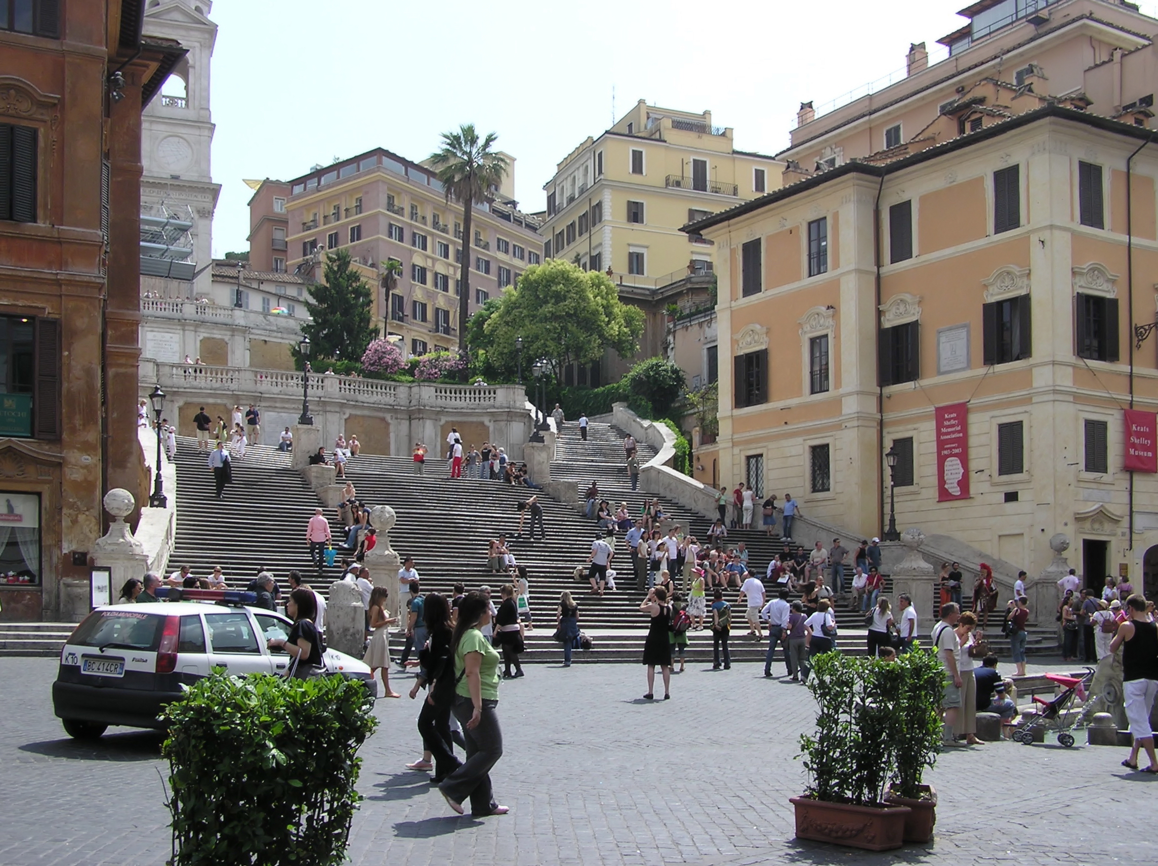 Rome - The Spanish Steps, seen from Piazza di Spagna.